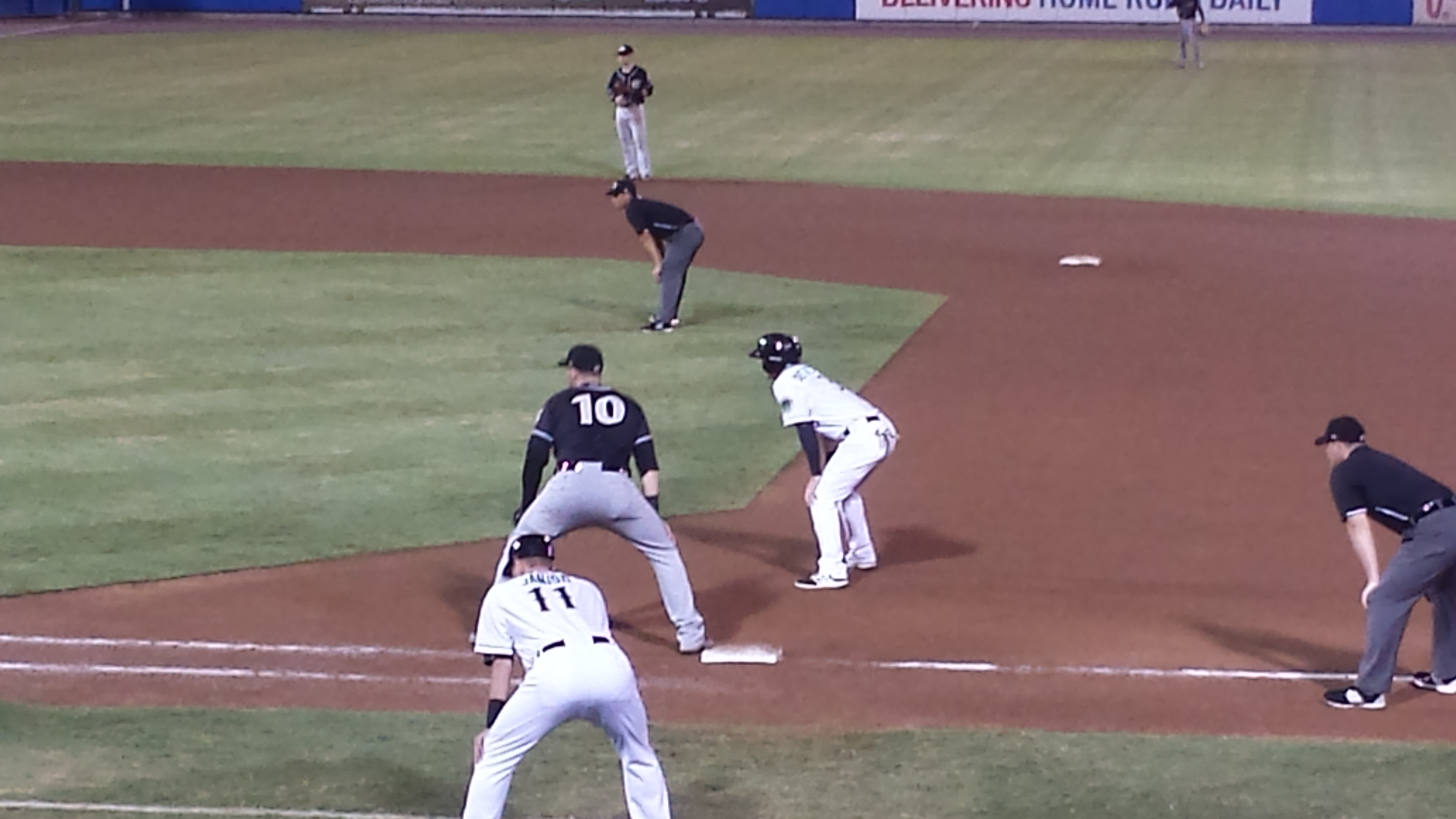 Mike Yastremski taking a lead off first base during a game at Harbor Park, Norfolk, VA for the Norfolk Tides against the Charlotte Knights on Saturday evening 27 August 2016. He got on base this time via a base on balls (unintentionally walked).